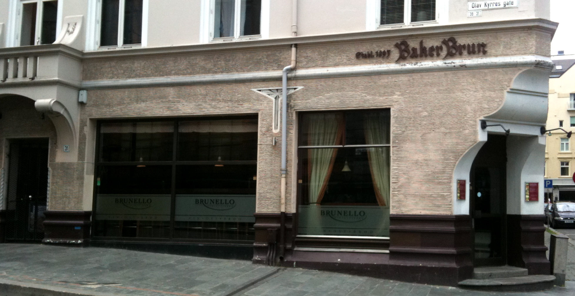 Norwegian bakery Baker Brun in Bergen, Norway